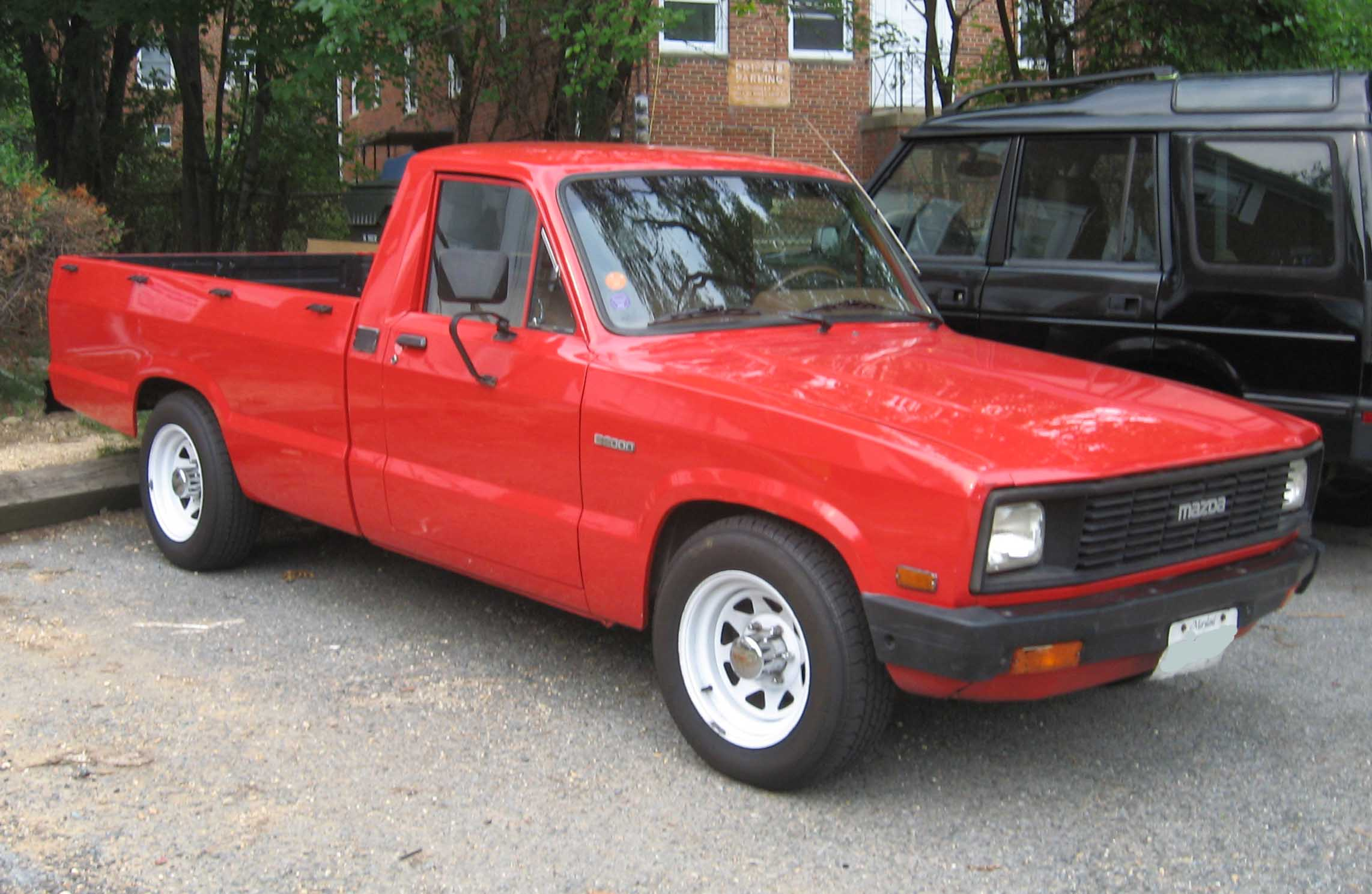 1982-1985 Mazda B2000 photographed in USA.